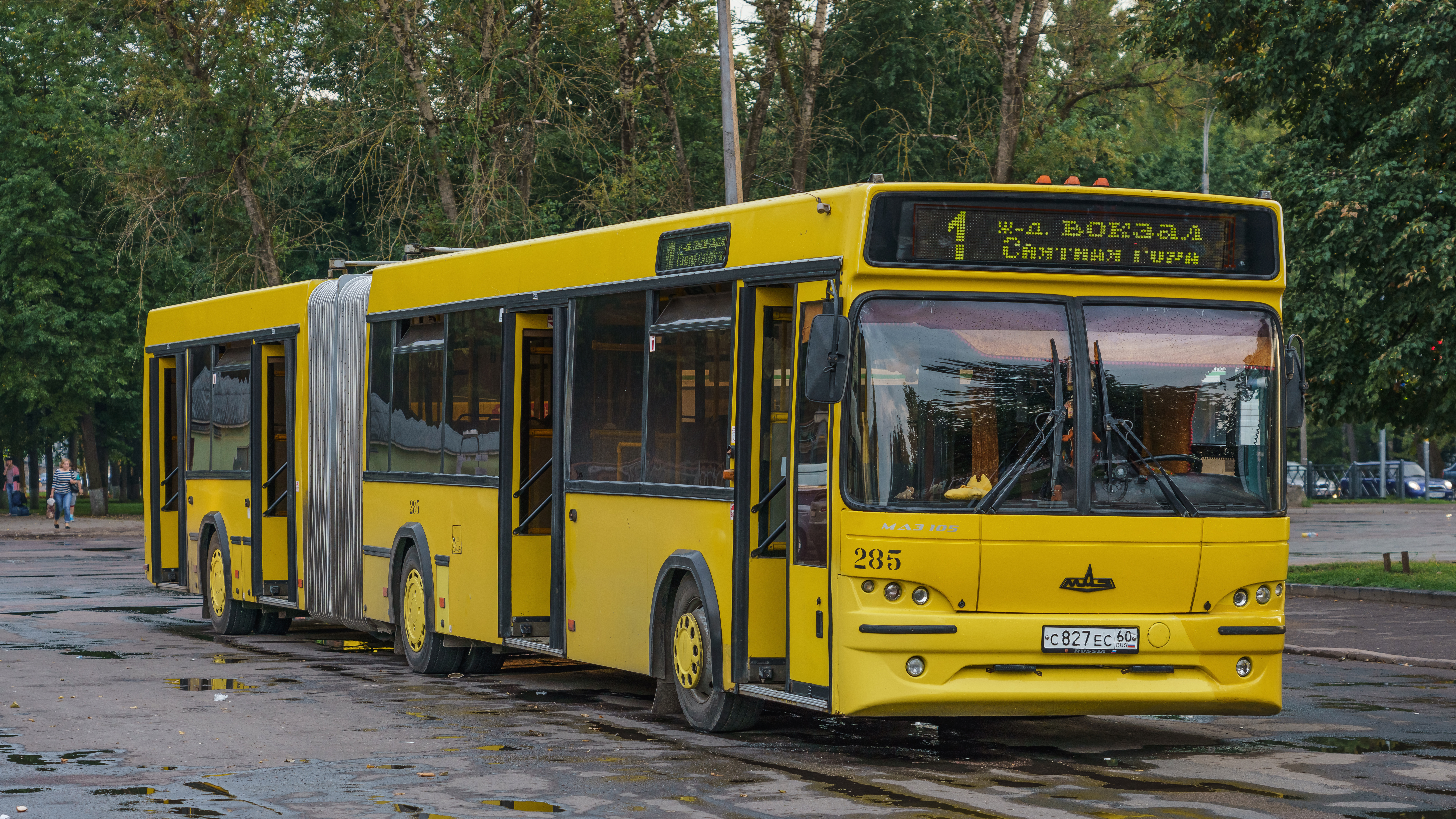 Bus on city route 1 at the railway station in Pskov, Russia